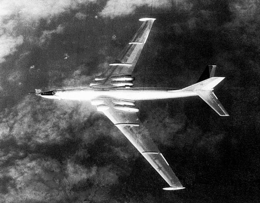 A Soviet Myasischev 3M (NATO reporting name "Bison-B") photographed from an intercepting U.S. Navy aircraft from the aircraft carrier USS Bon Homme Richard (CVA-31) during that carrier's deployment to the Western Pacific and the Vietnam War from 27 January to 10 October 1968.